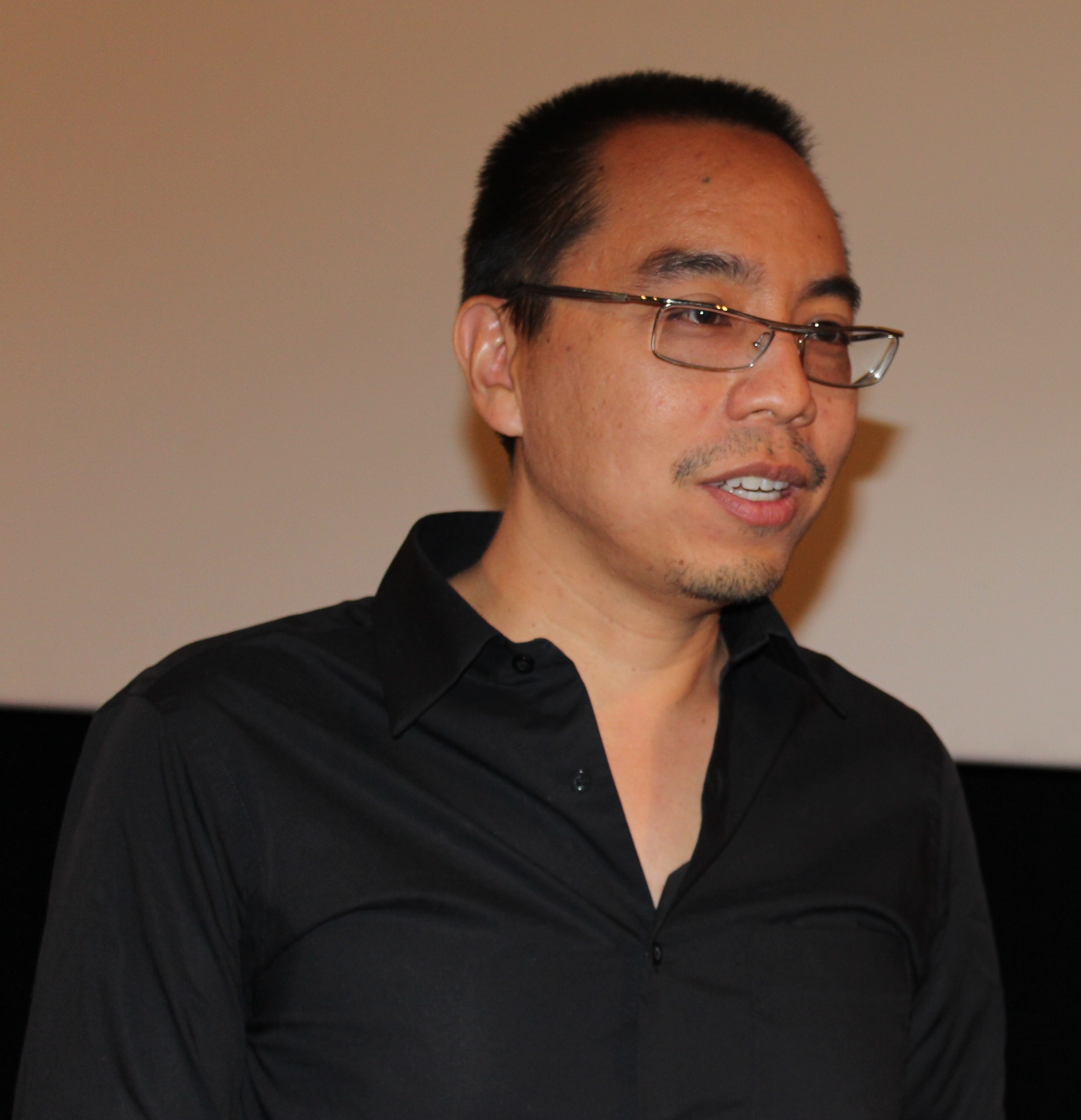 Apichatpong Weerasethakul at the Côté Court 2012 short film festival in Pantin, France